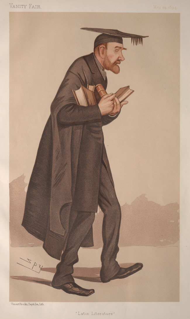 Men of the Day No.588: Caricature of Mr Robinson Ellis. Caption reads: "Latin Literature"